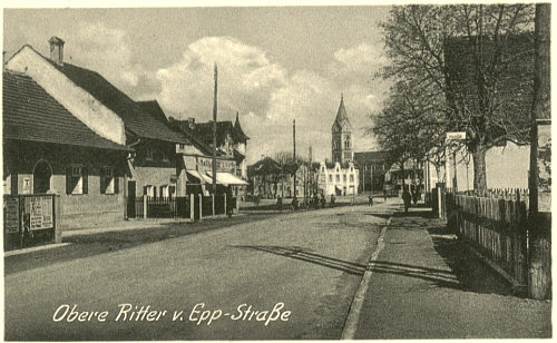 Olching Ritter von Epp Str, Old Postcard, approx 1920